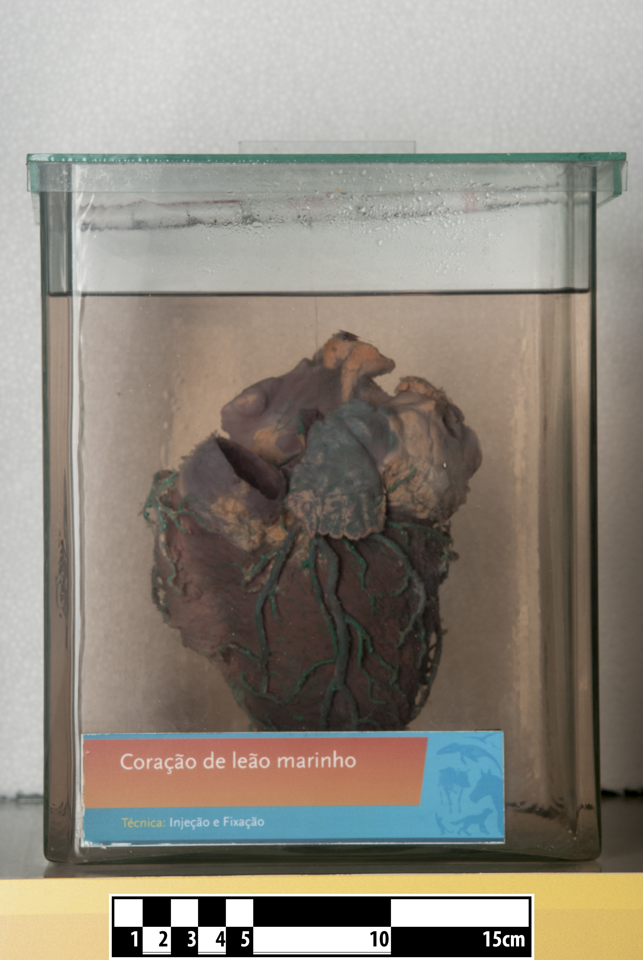 Sea lion heart. Otariinae Technique of latex injection and formalin fixation on display at the Museum of Veterinary Anatomy, FMVZ USP. This file was published as the result of a partnership between the Museum of Veterinary Anatomy FMVZ USP, the RIDC NeuroMat and the Wikimedia Community User Group Brasil. This GLAM project is reported. Photography: Museum of Veterinary Anatomy FMVZ USP. Author: Wagner Souza e Silva.